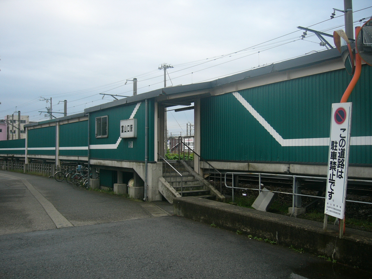 Toyamaguchi Station (JR Toyamako Line)